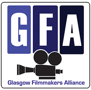 Logo of the Glasgow Filmmakers Alliance, designed by Steven Gladman.